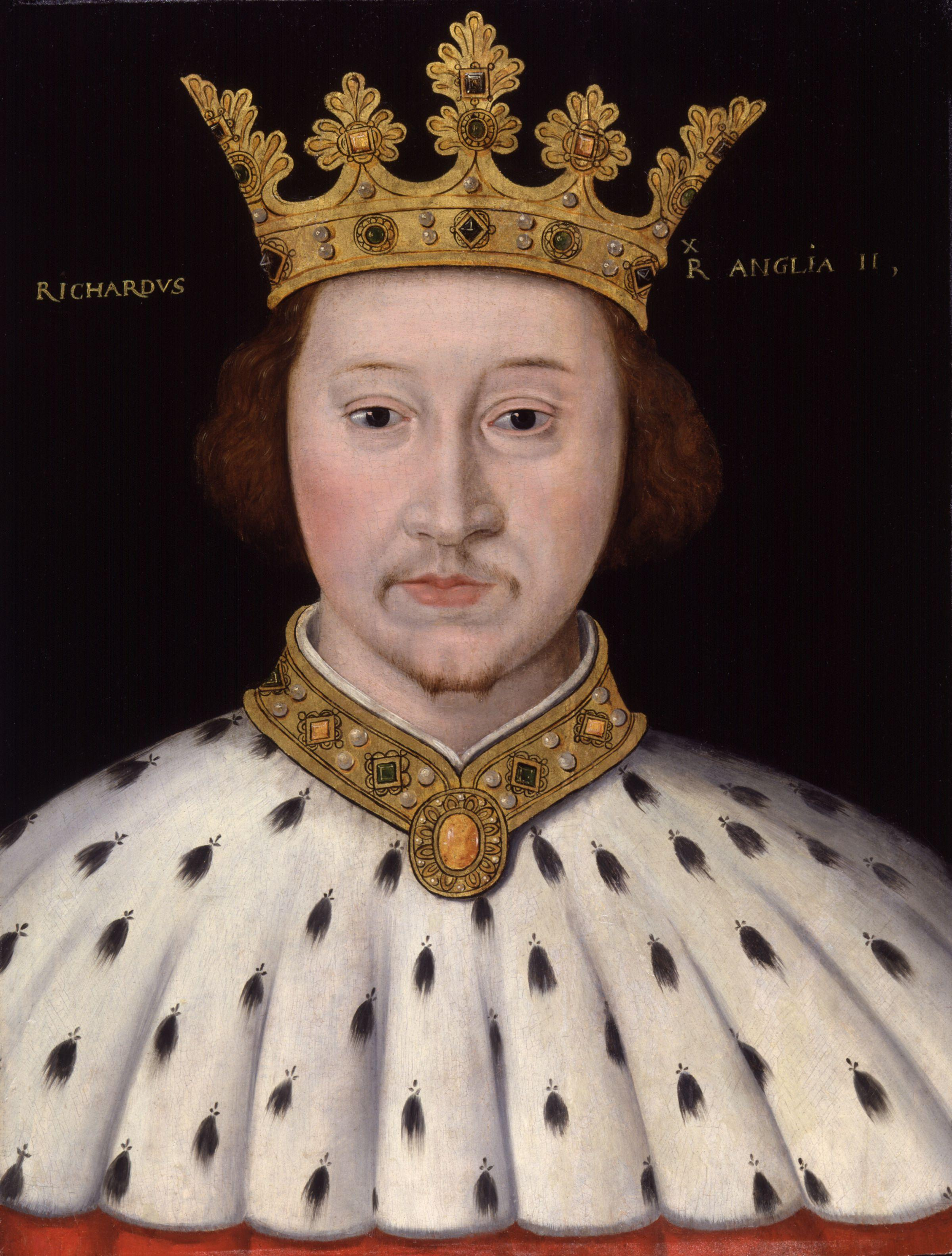 King Richard II, by unknown artist, late 16th century. All images in this batch have an unknown author, but there is strong evidence it was first published before 1923 (based mainly on the NPG's estimated date of the work).